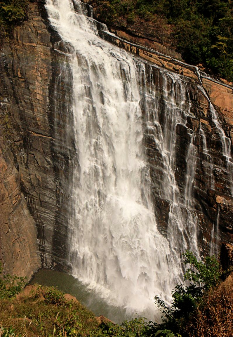 Unchalli Falls, also called Lushington Falls